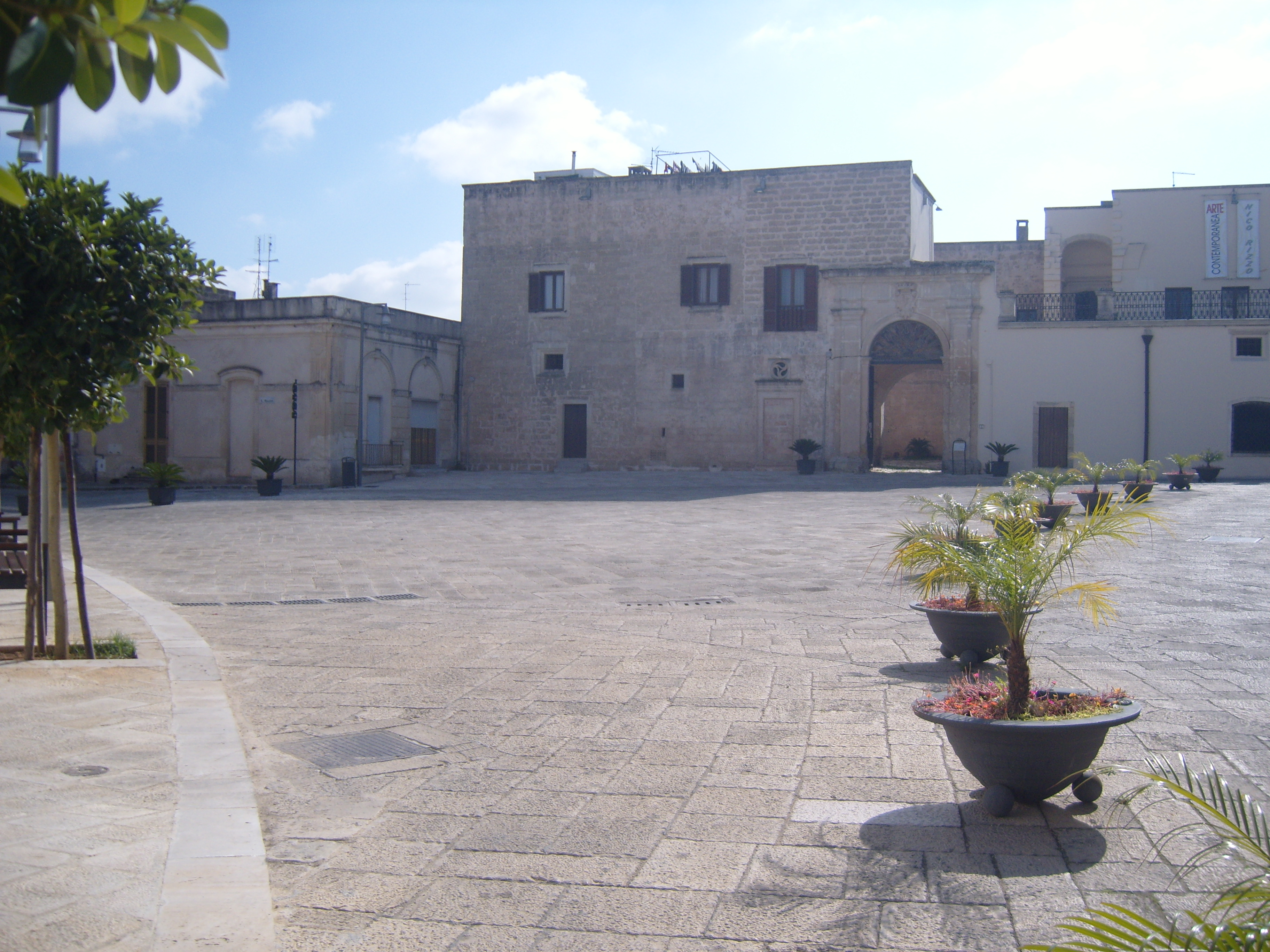 Piazza and Palazzo Palmieri in Martignano, Province of Lecce - Apulia (Italy)